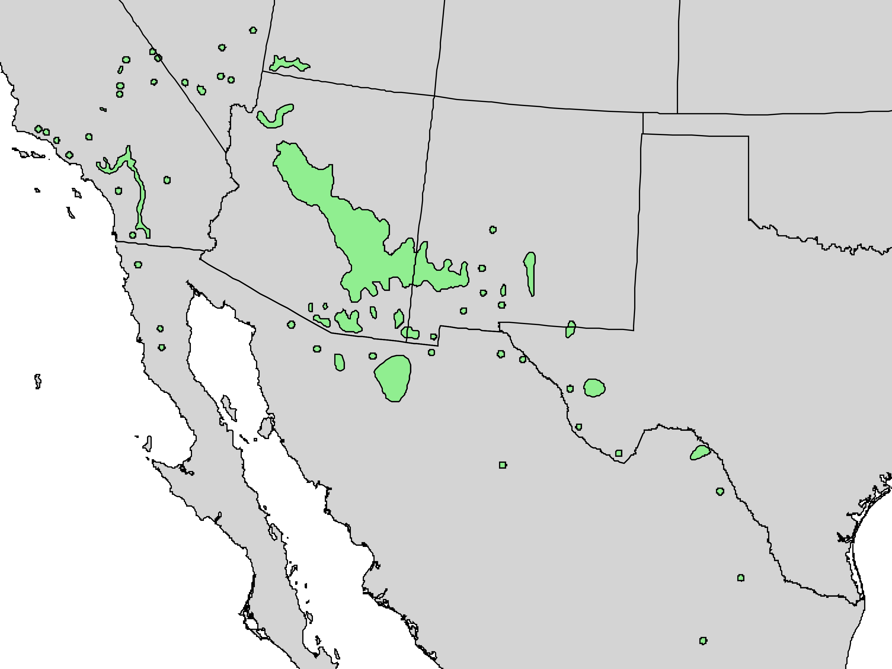 Natural distribution map for Fraxinus velutina (velvet ash)